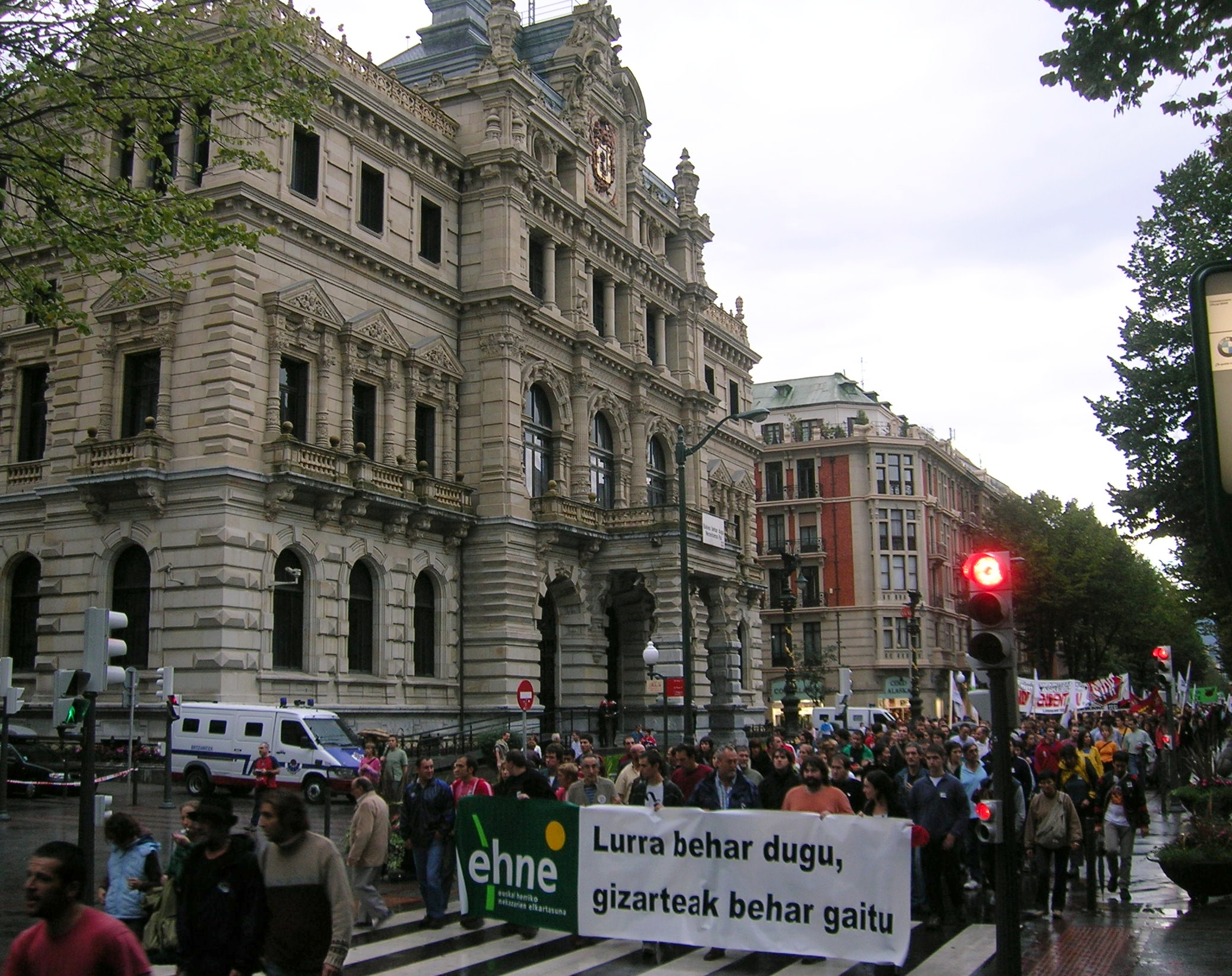 Demonstration at Bilbao Main Way against high-speed rail. Banner of EHNE (Euskal Herriko Nekazarien Elkartasuna - Solidarity of Agricultural Workers of the Basque Country) union (member of Via Campesina)